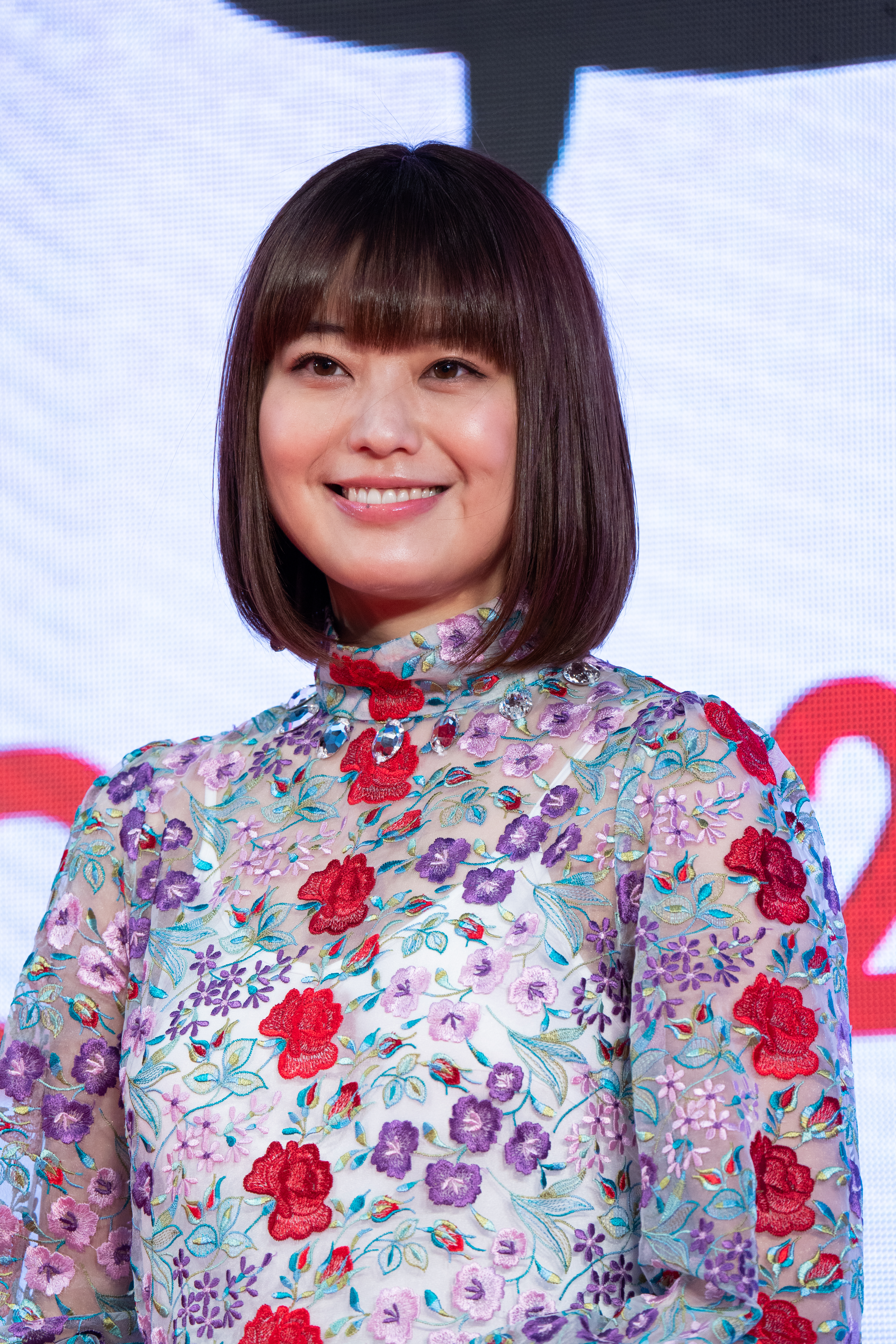 Ami Tomite from "For Him to Live" at Opening Ceremony of the Tokyo International Film Festival